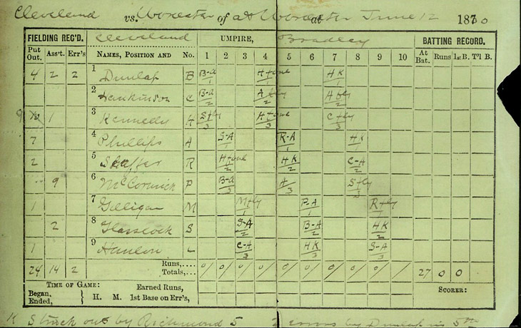 Photograph of scorecard for the first perfect game in major league baseball history, by Lee Richmond, June 12, 1880. The information contained in the card is public domain and the photograph contains no information other than the card. Explanation of symbols: A=first base, B=second base, C=third base, H=catcher, L=left field, M=center field, R=right field, P=pitcher, S=shortstop. Play by play, from scorecard--FIRST: grounder to 2nd, grounder to second, fly ball to short. SECOND: grounder to short, "foul bound" out to catcher, grounder to 2nd. THIRD: fly ball to center, grounder to short, grounder to 3rd. FOURTH: "foul bound" out to catcher, fly ball to first, "foul bound" out to catcher. FIFTH: right fielder throws out batter-runner at first, strikeout, fly ball to first. SIXTH: grounder to pitcher, grounder to second, strikeout. SEVENTH: strikeout, fly ball to catcher, fly ball to third. EIGHTH: strikeout, grounder to third, fly ball to shortstop. NINTH: fly ball to right, strikeout, grounder to short.